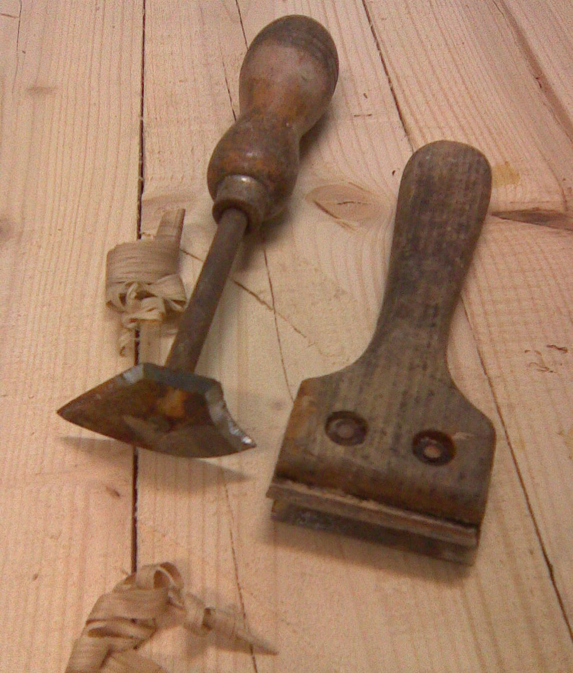 Scrapers